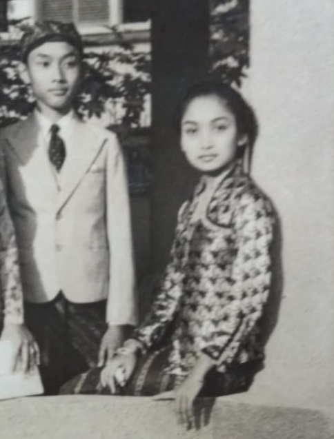 RM Purnadi Purbocaroko and BRAy Ratna Himawati Purbocaroko